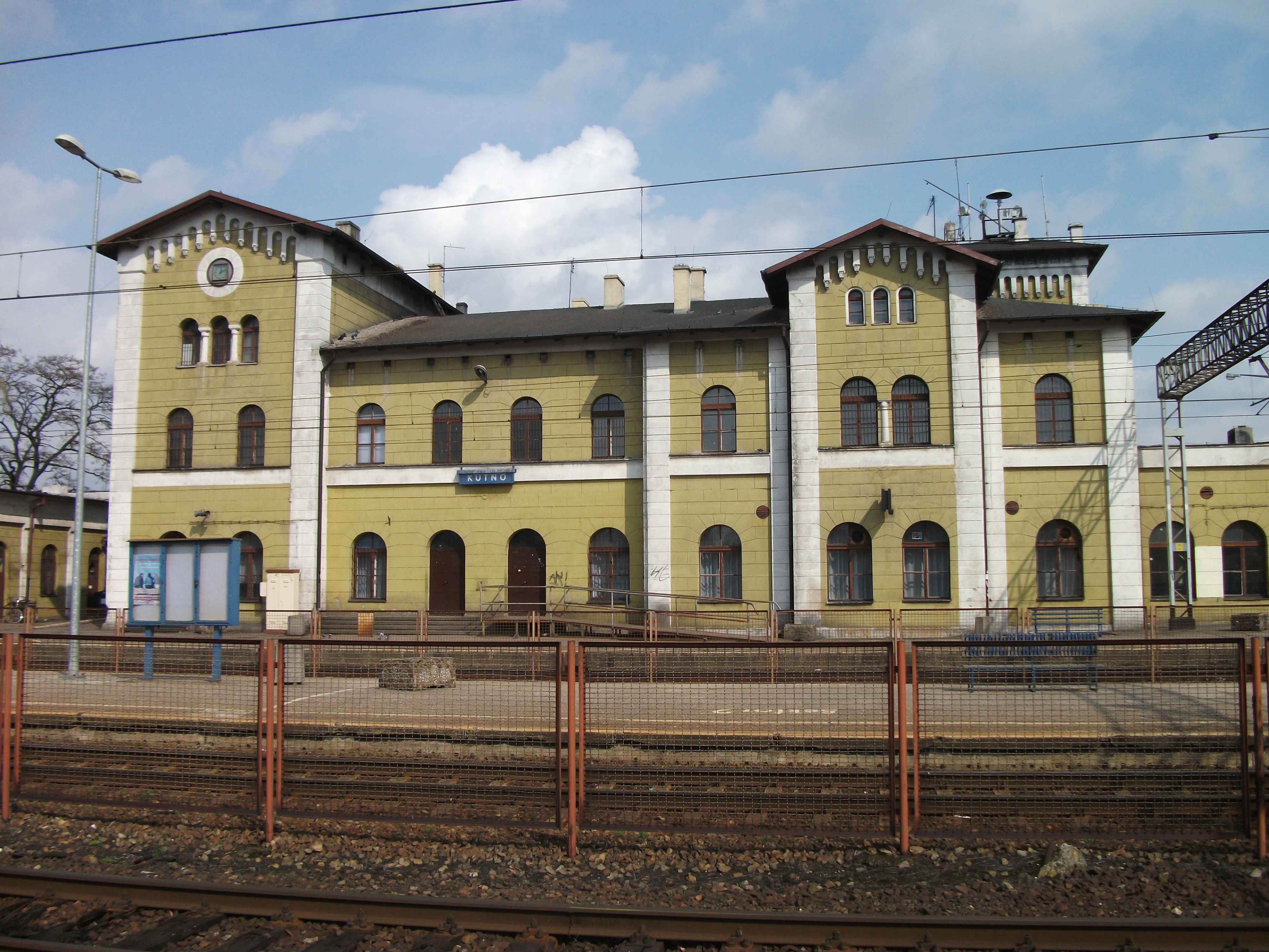 Kutno railway station